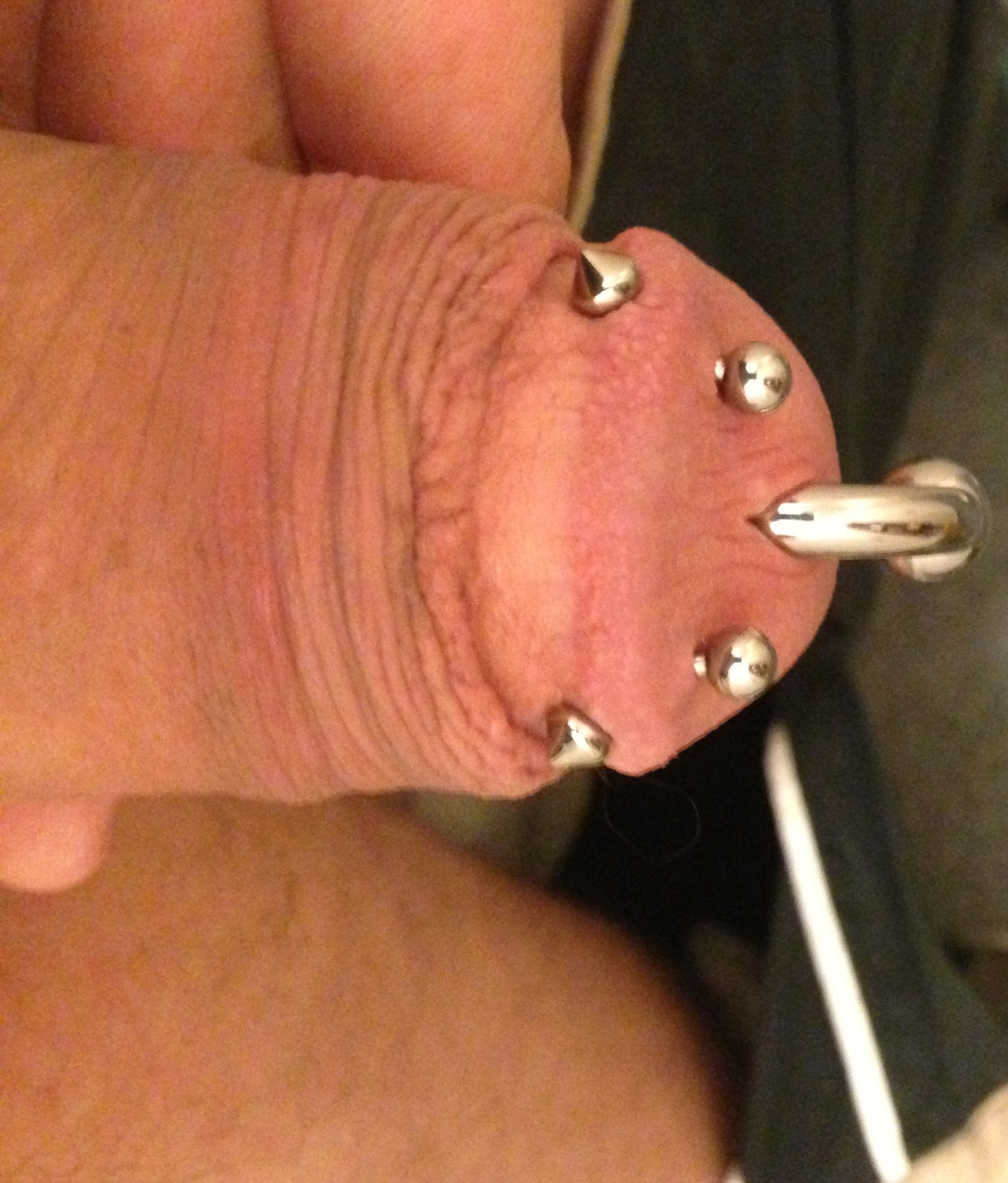 Double dydoes